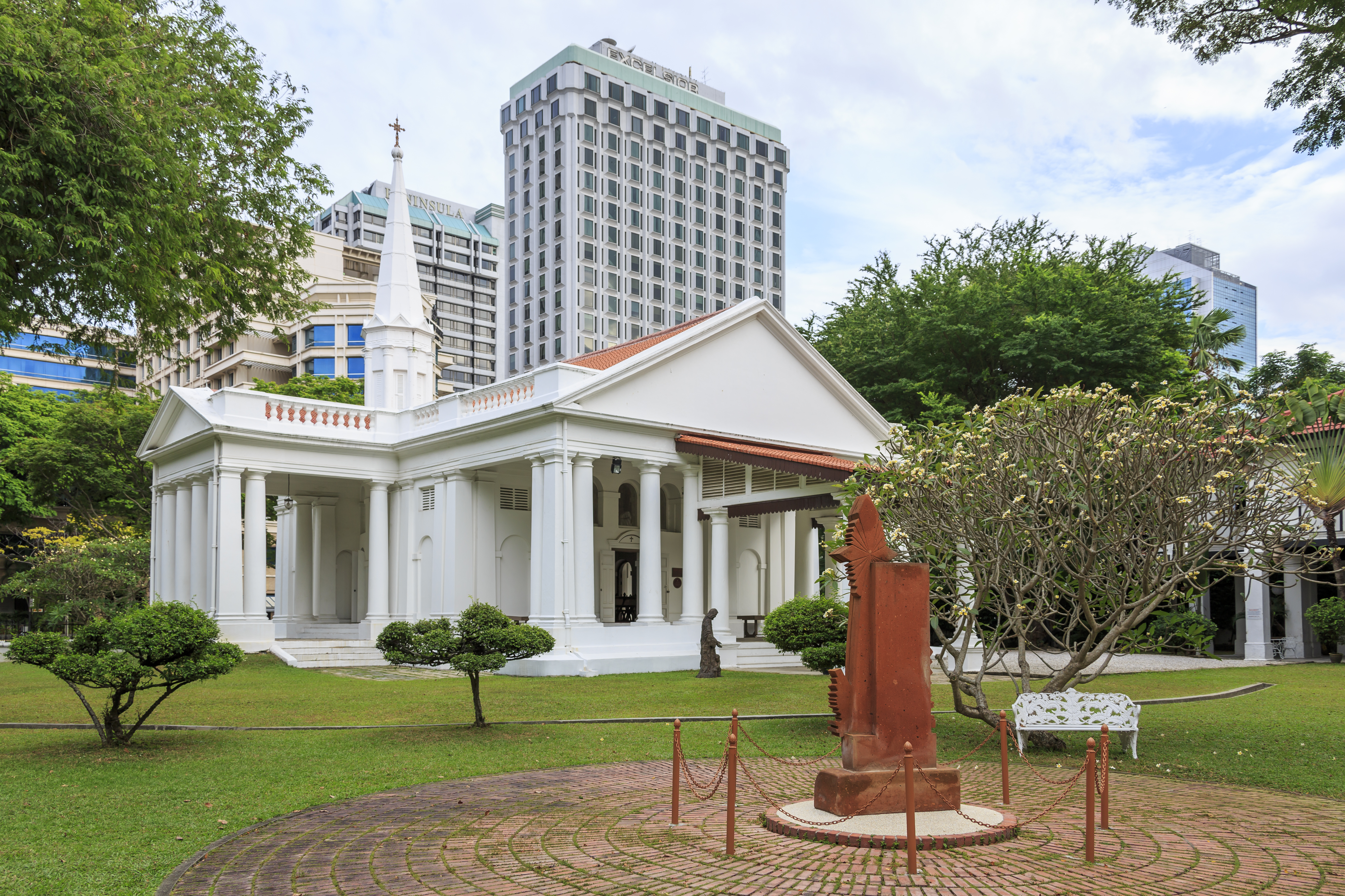 Singapore: Armenian Church of St. Gregory the Illuminator at 60 Hill Street